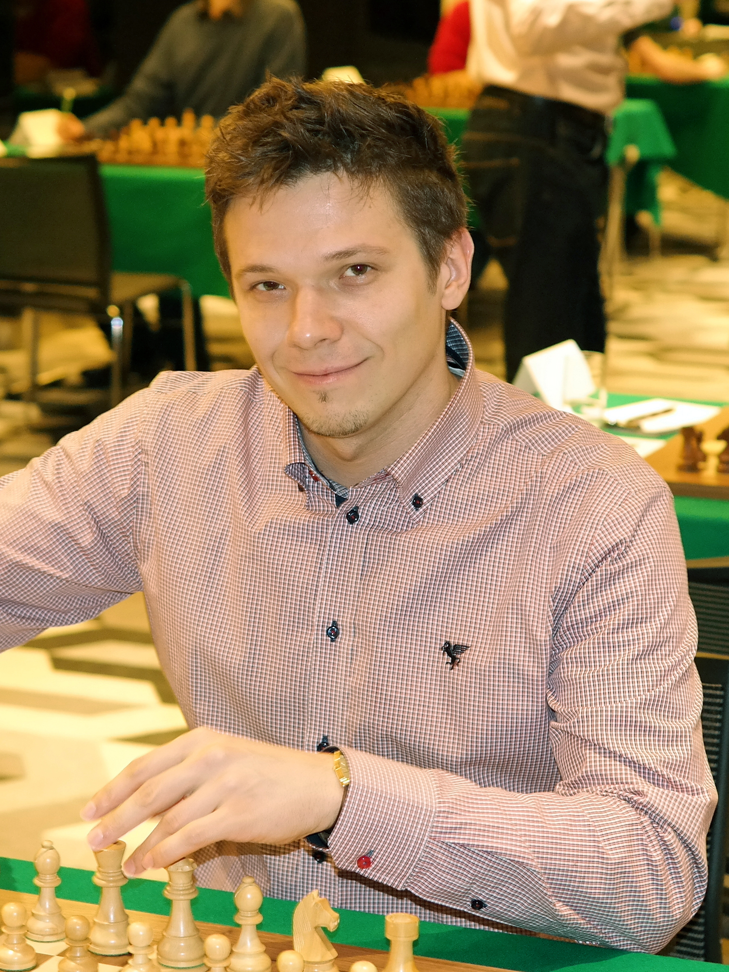 GM Bartłomiej Heberla, Polish Chess Championship, Warsaw 2014